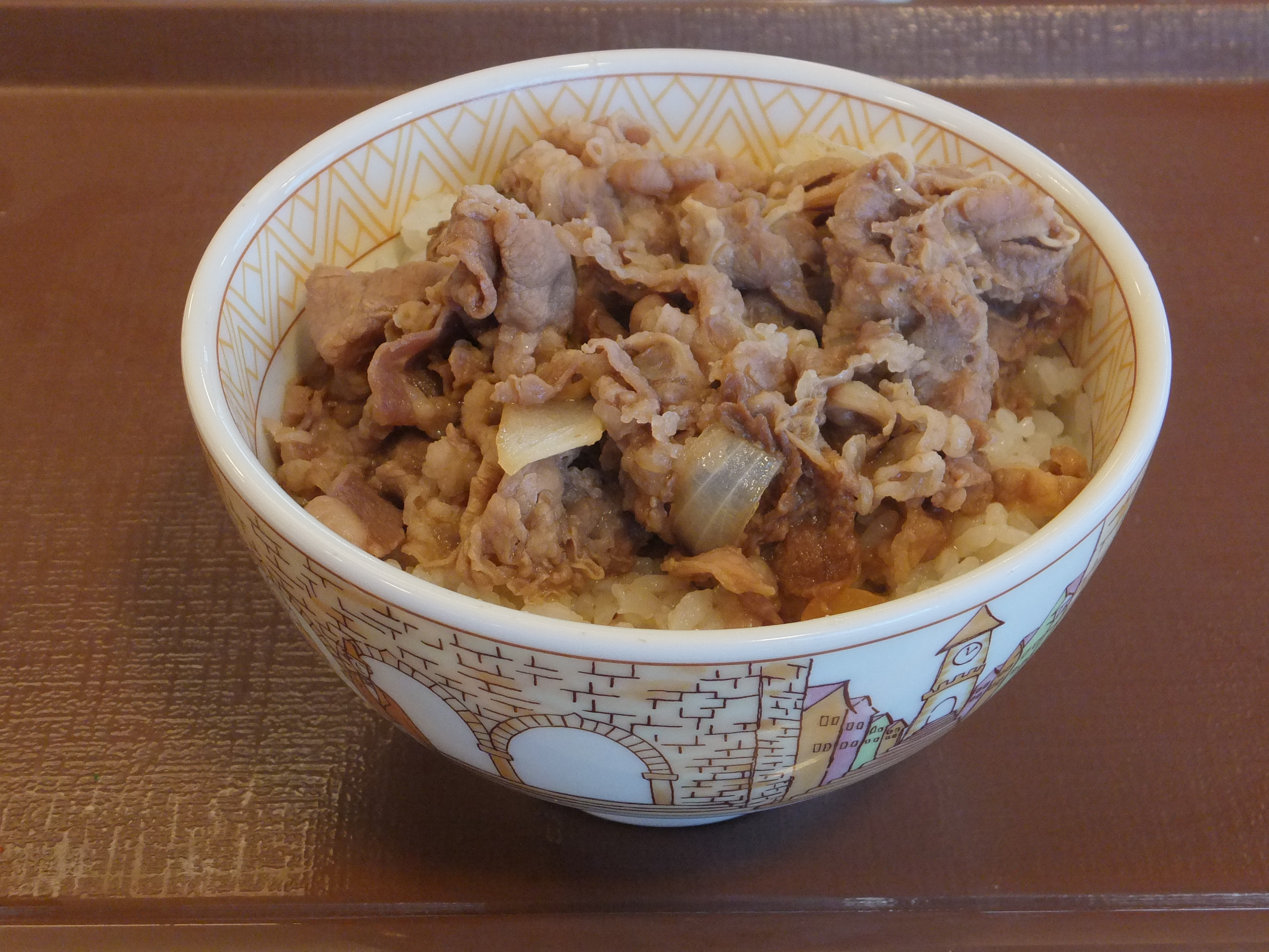 Gyudon, at Sukiya